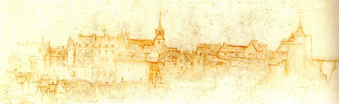 Castle in Amboise